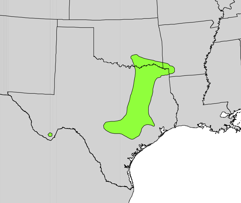 Range map of Maclura pomifera